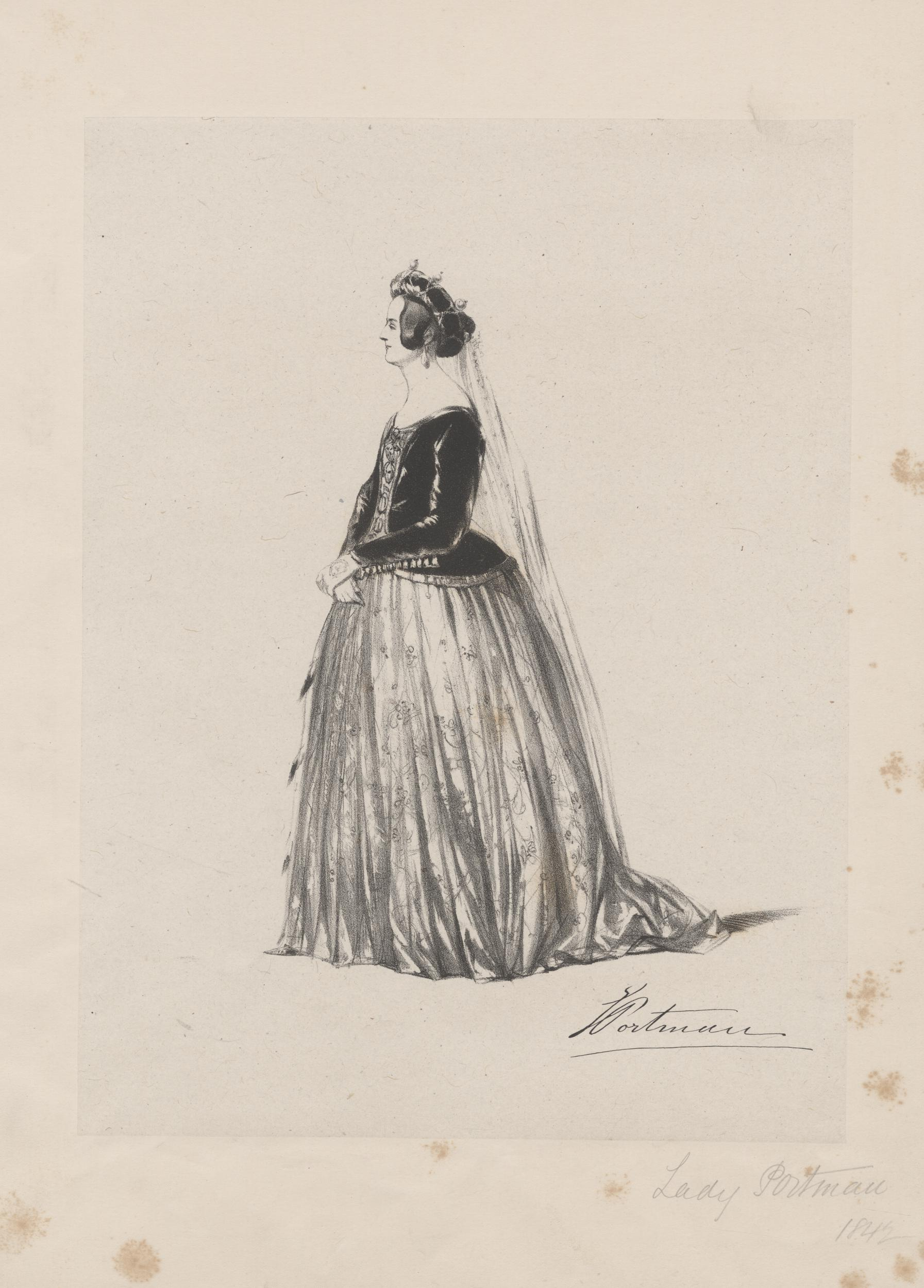 Portrait of Emma, Visctouness Portman; full length, standing in profile to left; hands clasped together in front of her; wearing costume, including a hood with veil vignette; with facsimile of signature Lithograph on chine collé